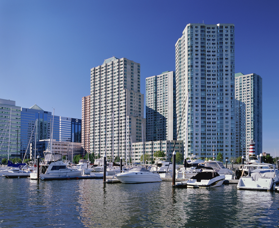 Rental Apartment Towers in Newport, Hudson Waterfront, Jersey City, NJ with Newport Marina in foreground.